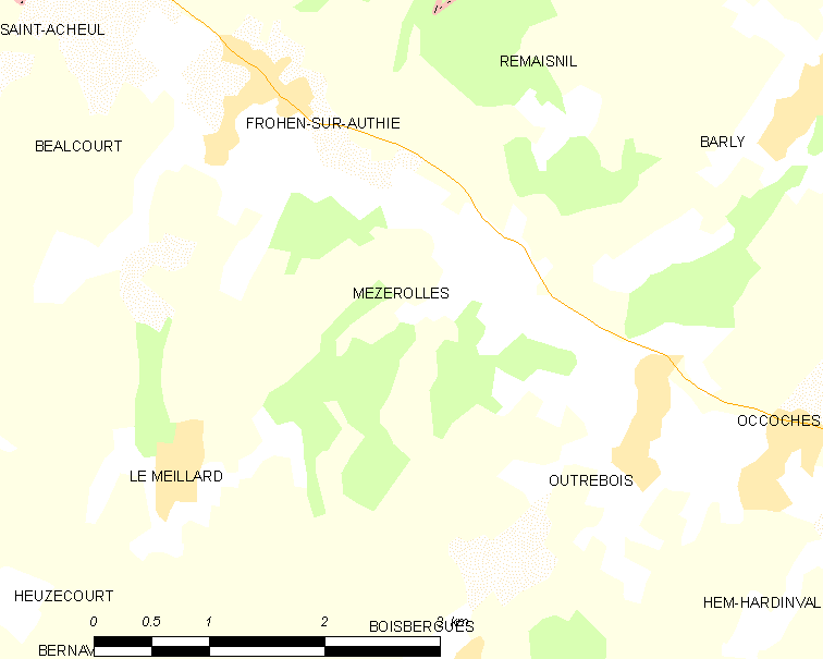 Map of French municipality Mézerolles